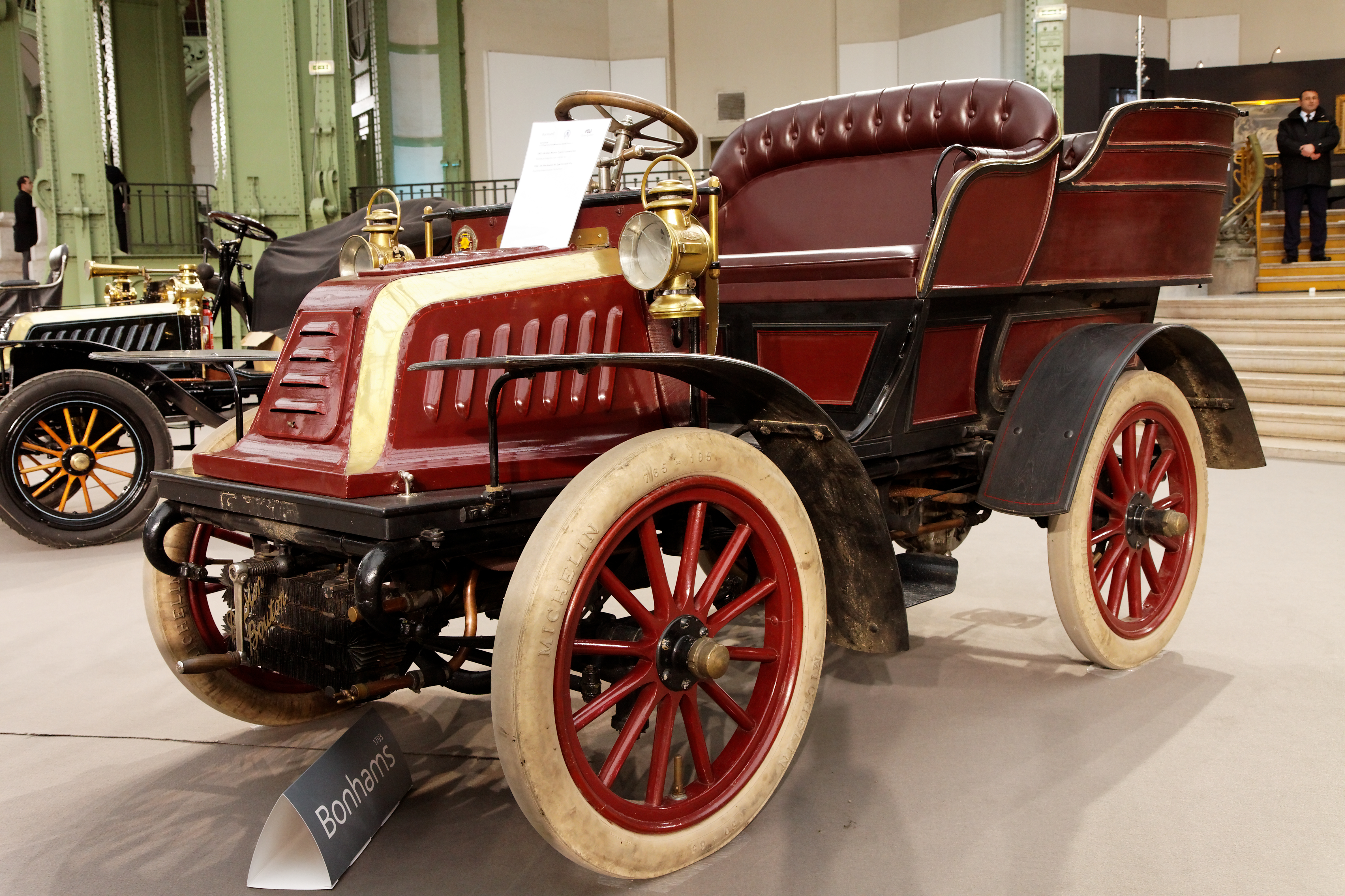 De Dion-Bouton Type K1